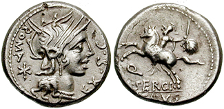 Marcus Sergius Silus. 116-115 BC. AR Denarius (3.91 g). Helmeted head of Roma right; EX • S • C before, ROMA and mark of value behind Horseman galloping left, holding sword and head of barbarian; Q / [M] • SERGI below, [SIL]VS in exergue. Crawford 286/1; Sydenham 544; Sergia 1a. VF, light porosity, slight obverse scrape.